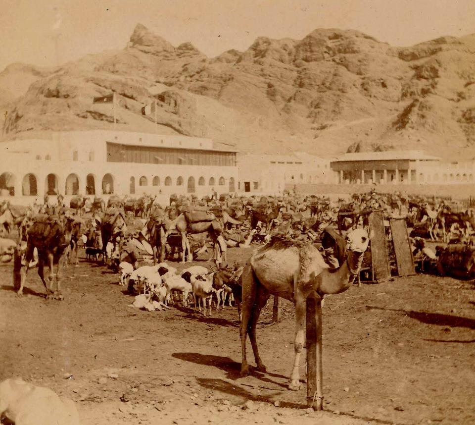 A market in Aden, Yemen. Photo taken during the first trip of Argentine frigate "Sarmiento".